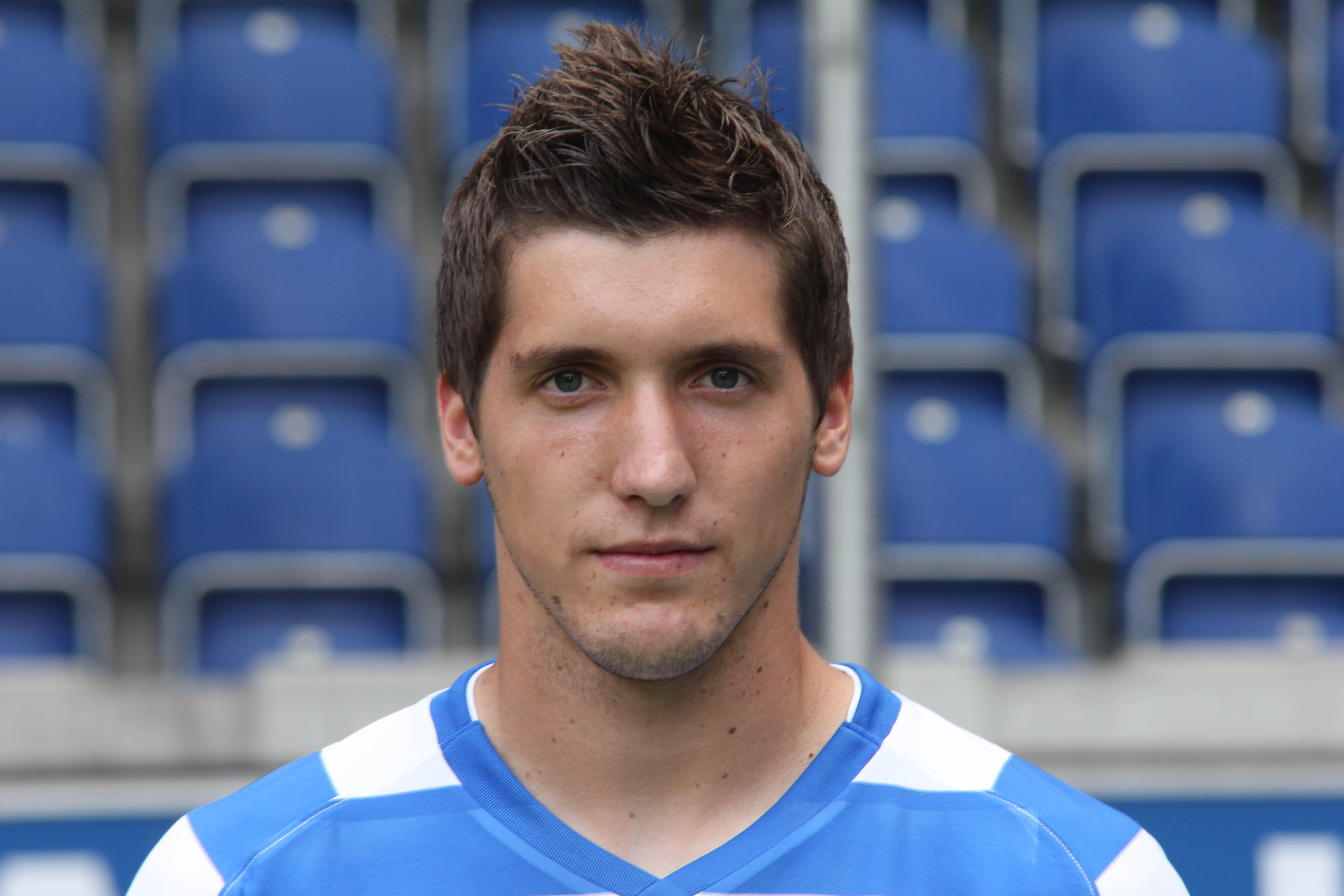 Croatian footballer Zvonko Pamić, MSV Duisburg